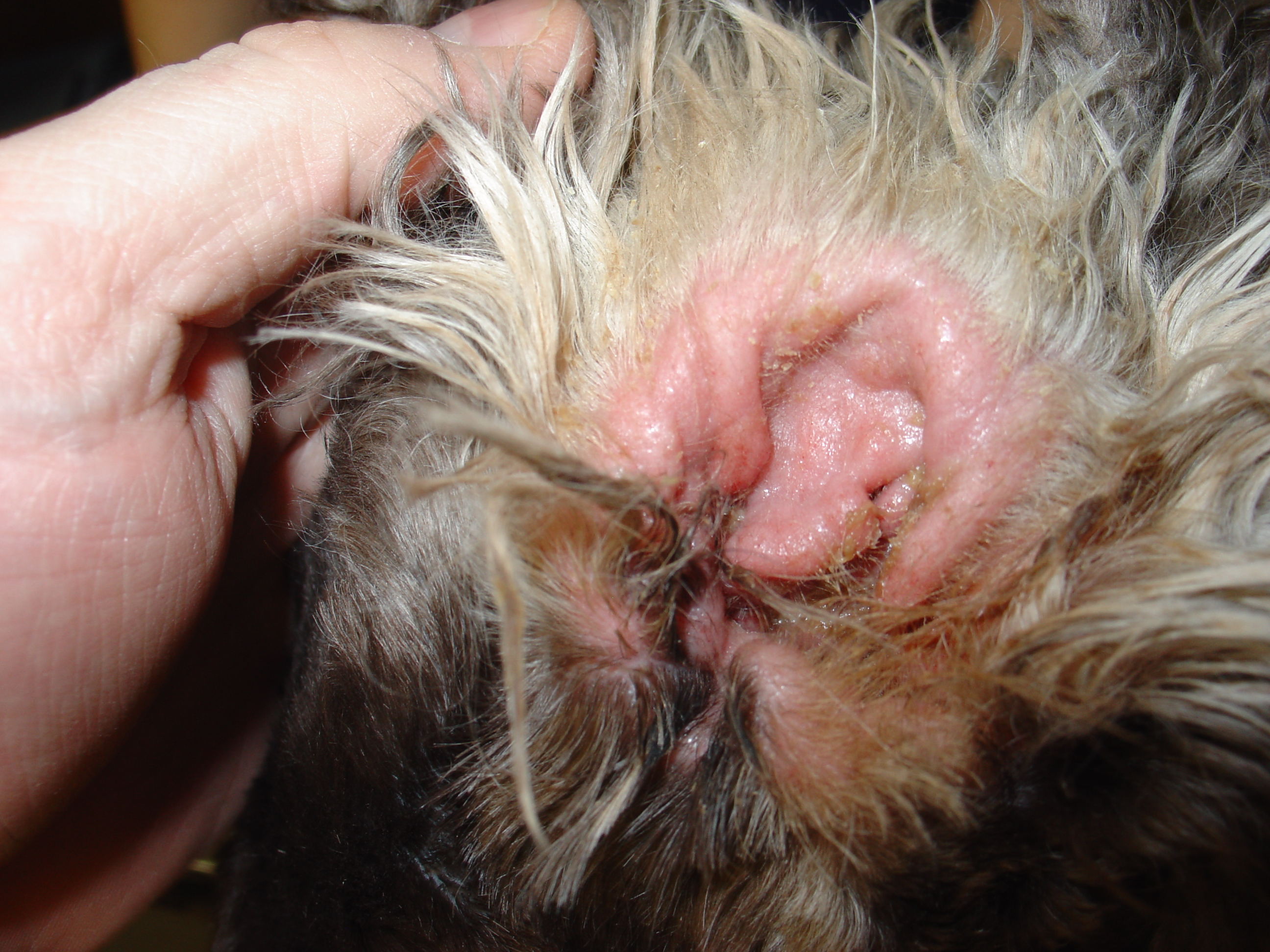 Severe otitis externa in a four year old Cocker Spaniel. The ear canal is inflamed and swollen shut, and ceruminous exudate is present.